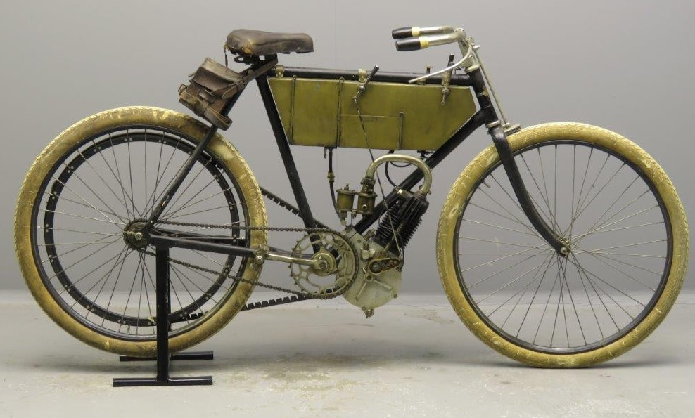 French Pécourt motorcycle 1901